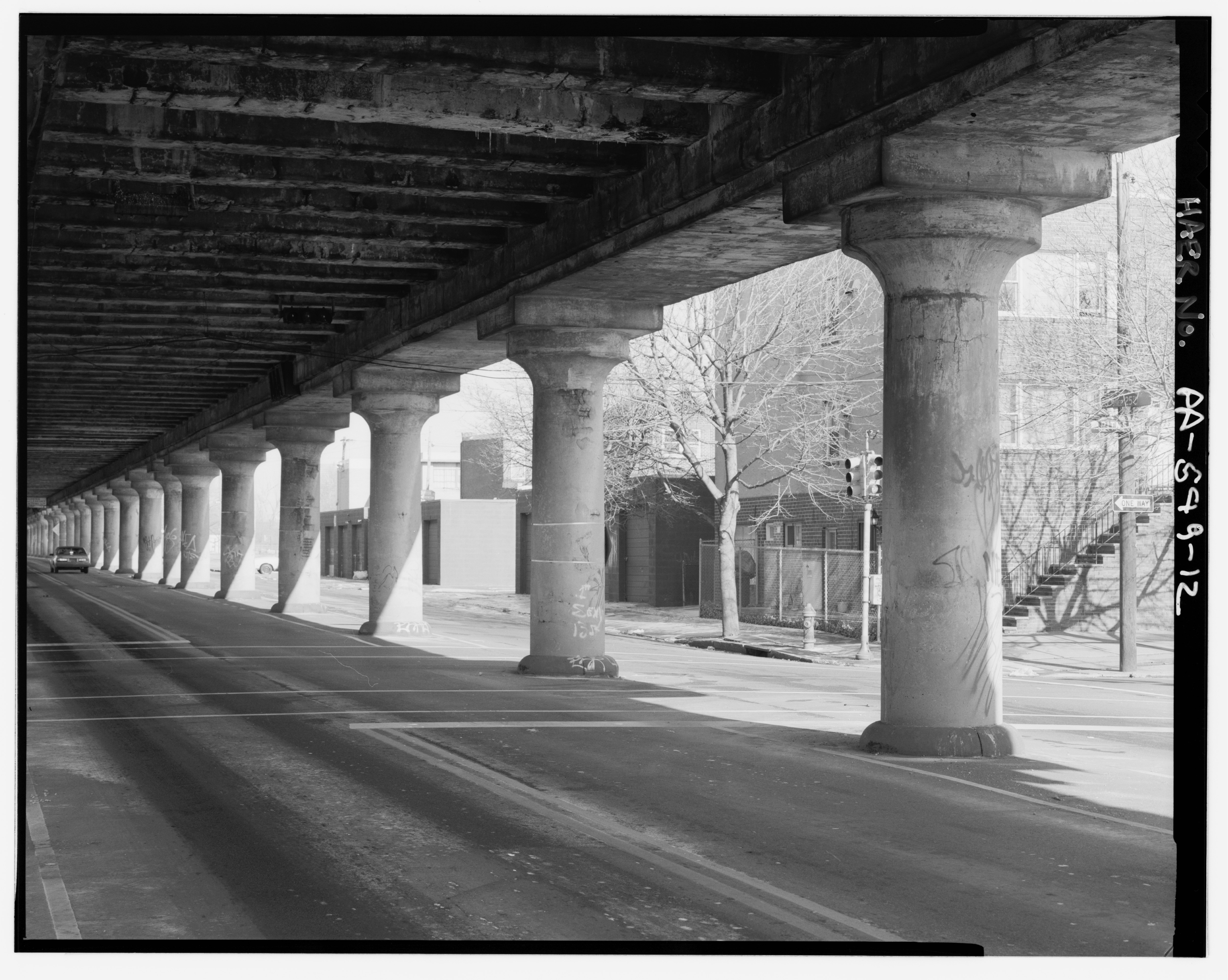 General view of the 25th Street Elevated in Philadelphia, Pennsylvania. The viaduct was erected between 1926 and 1928 in order to consolidate freight railroad spurs in South Philadelphia.